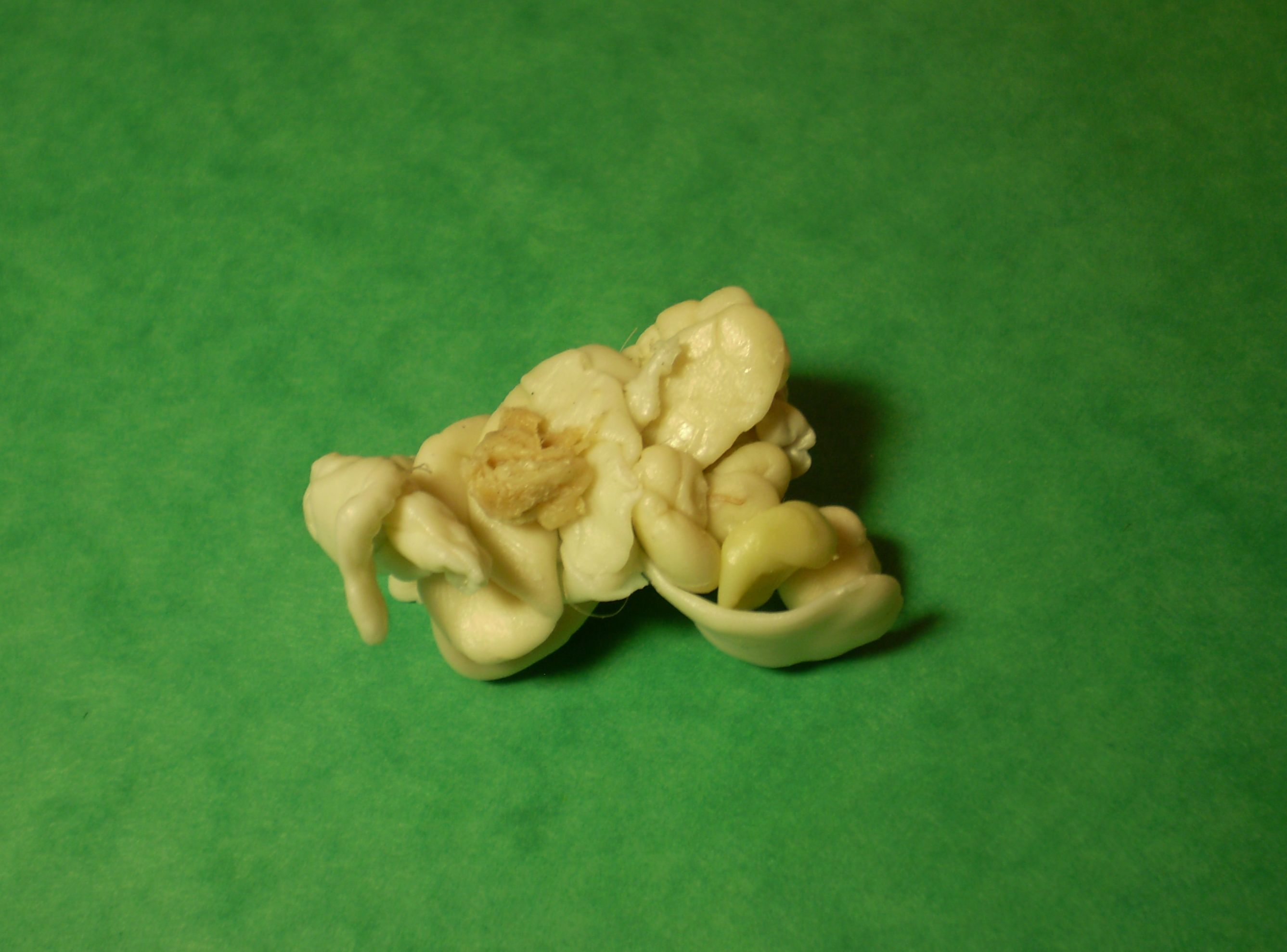 Chewed gums